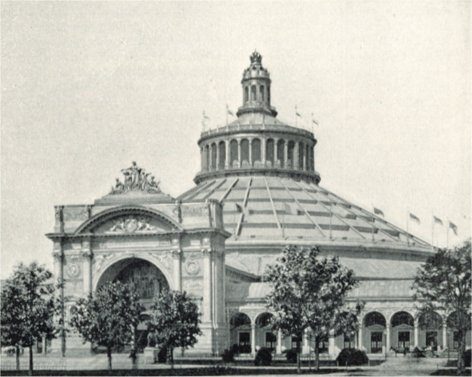 The Rotunde building in Vienna, built due to the world exhibition 1873